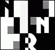 NIR logo from 1953 until 1960